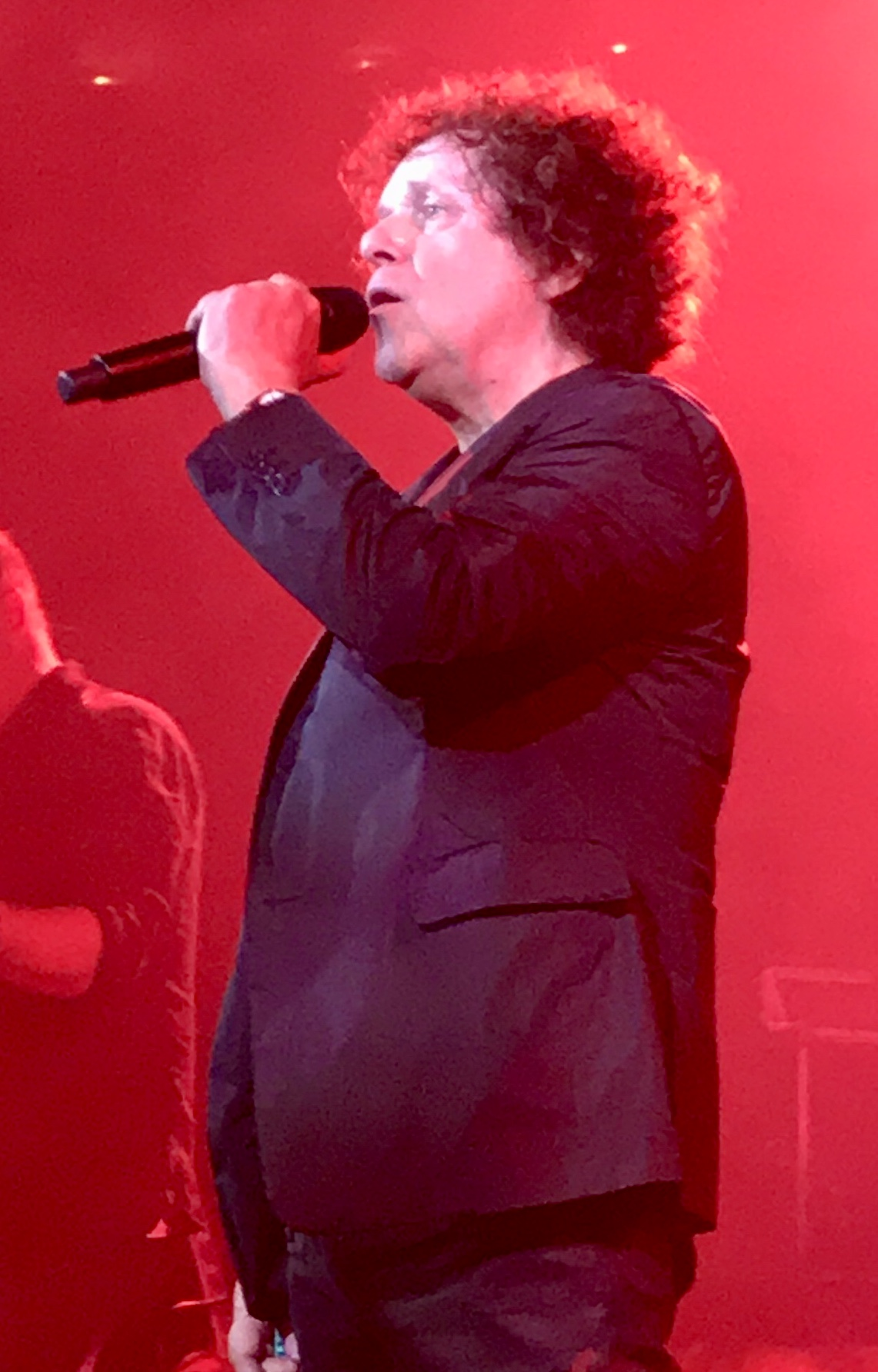 Leo Sayer Union Chapel 3 May 2019